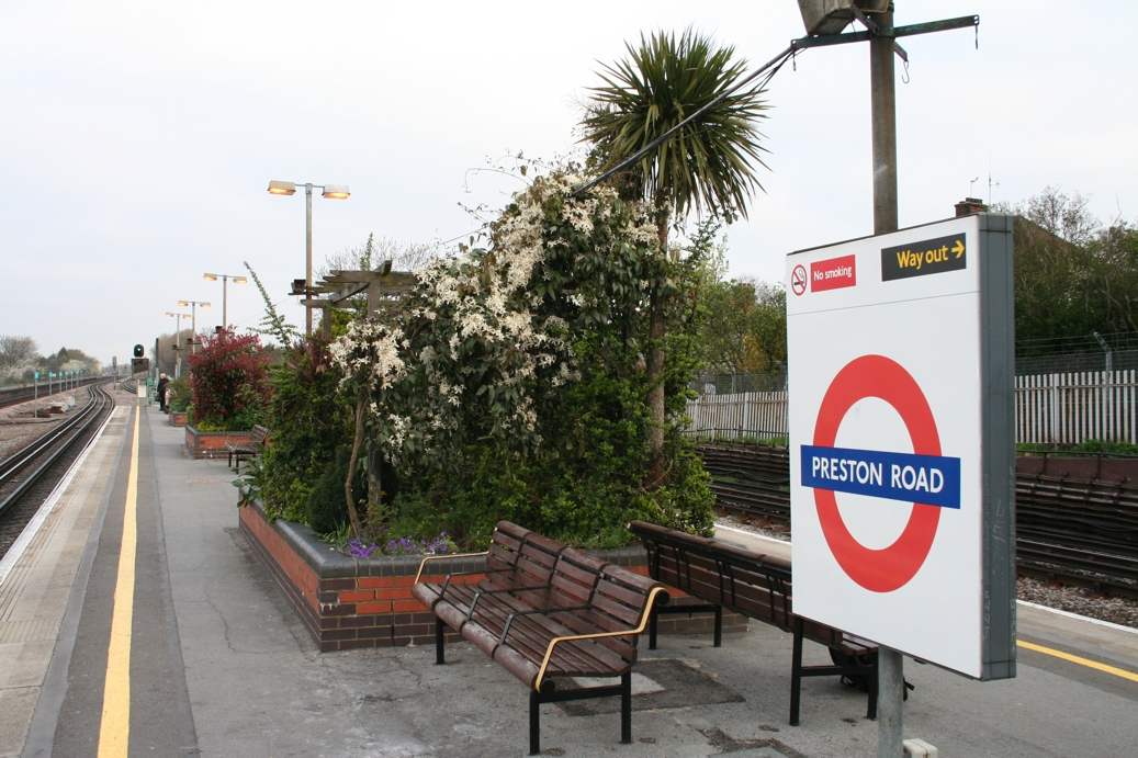 Horticultural displays on the platform at Preston Road.